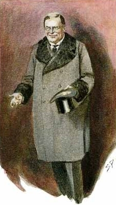 Illustration of "The Adventure of Charles Augustus Milverton" by Arthur Conan Doyle, which appeared in The Strand Magazine in april 1904, with the caption:"Charles Augustus Milverton."